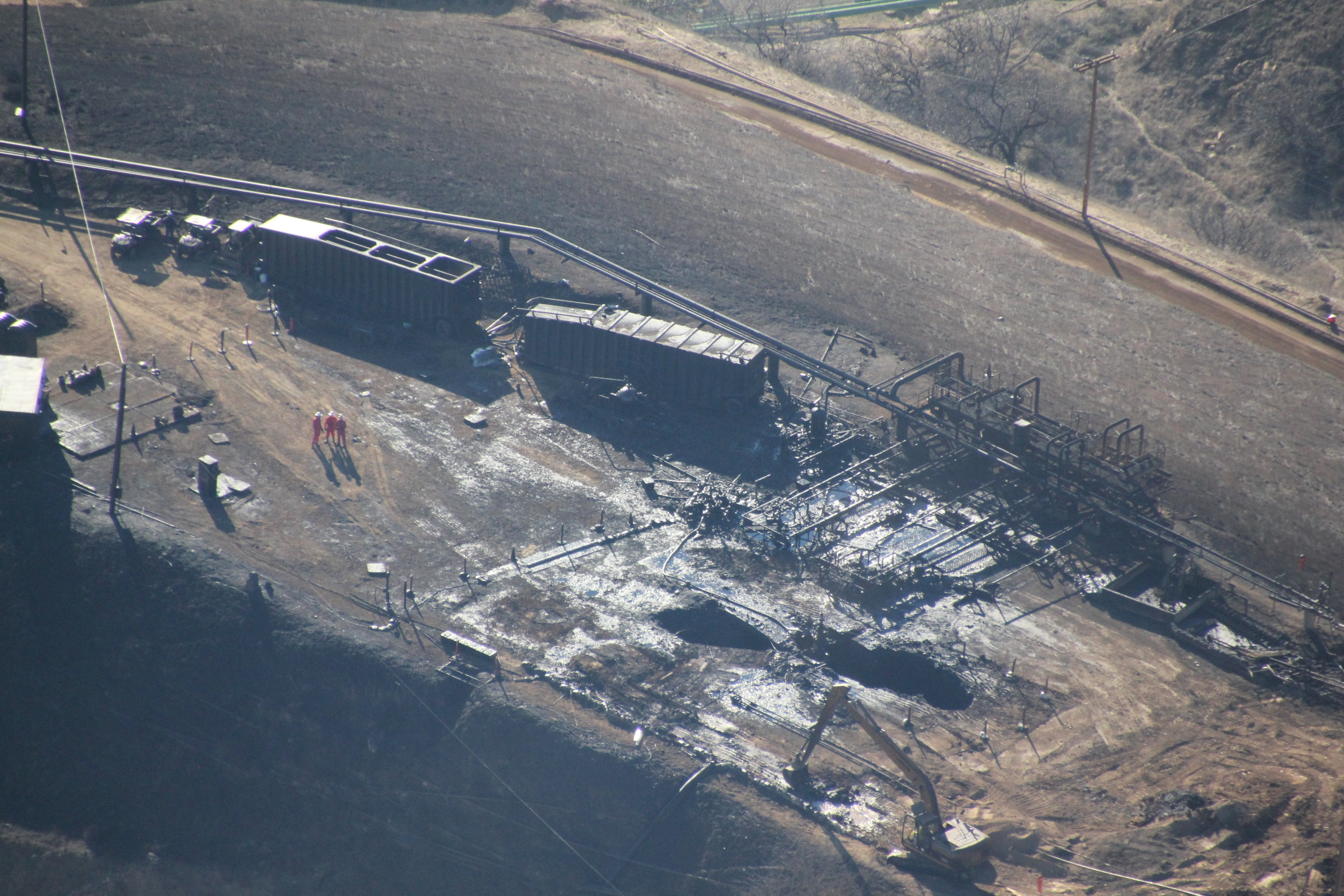 Aerial view of the Aliso Canyon gas leak, two months after the incident began.